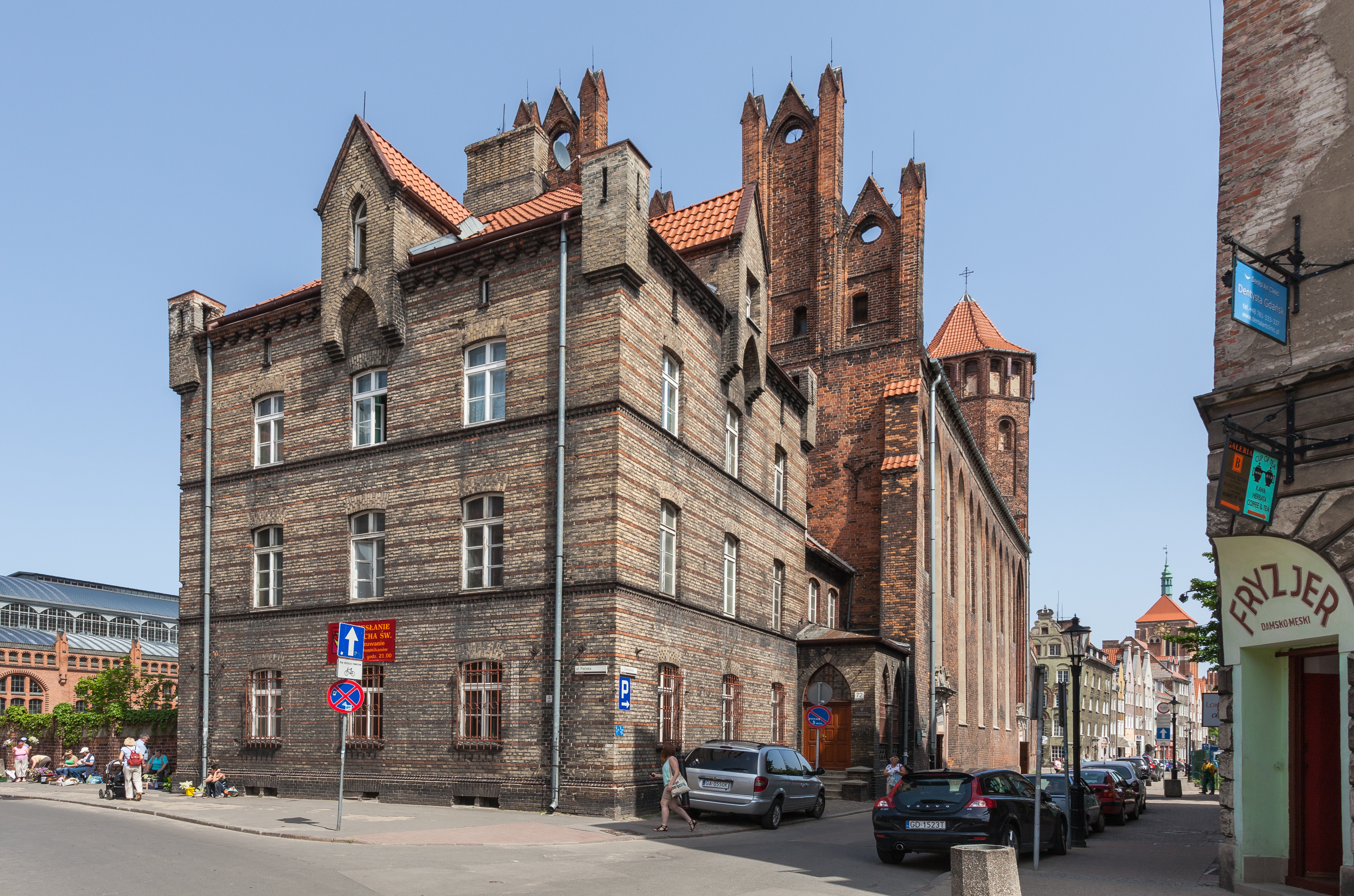 St. Nicholas church, Gdansk, Poland 03.1957.